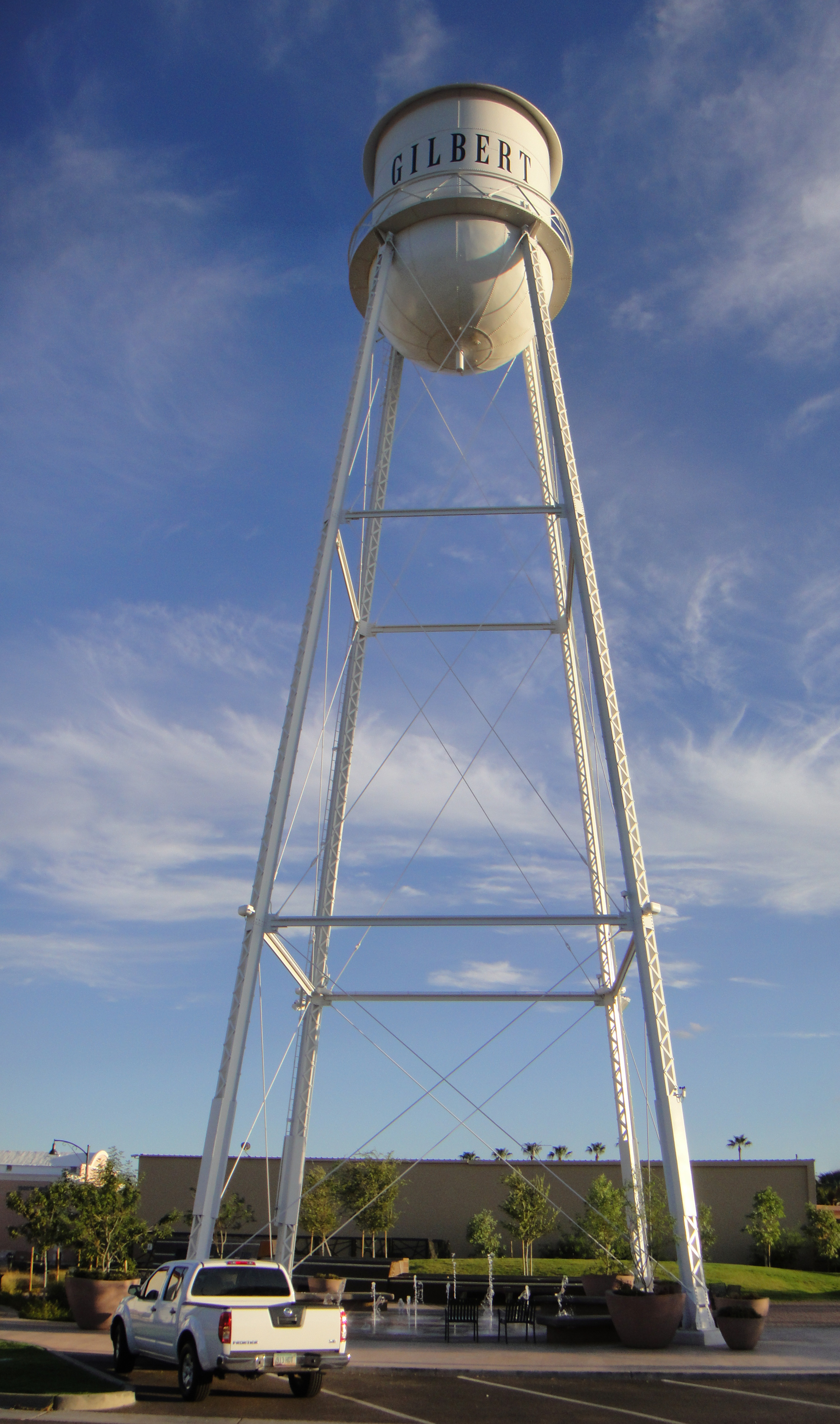 Photo of the water tower in Downtown Gilbert, Arizona and the Water Tower Park below.